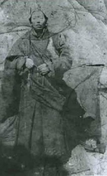 Khandro Ogyan Tsomo